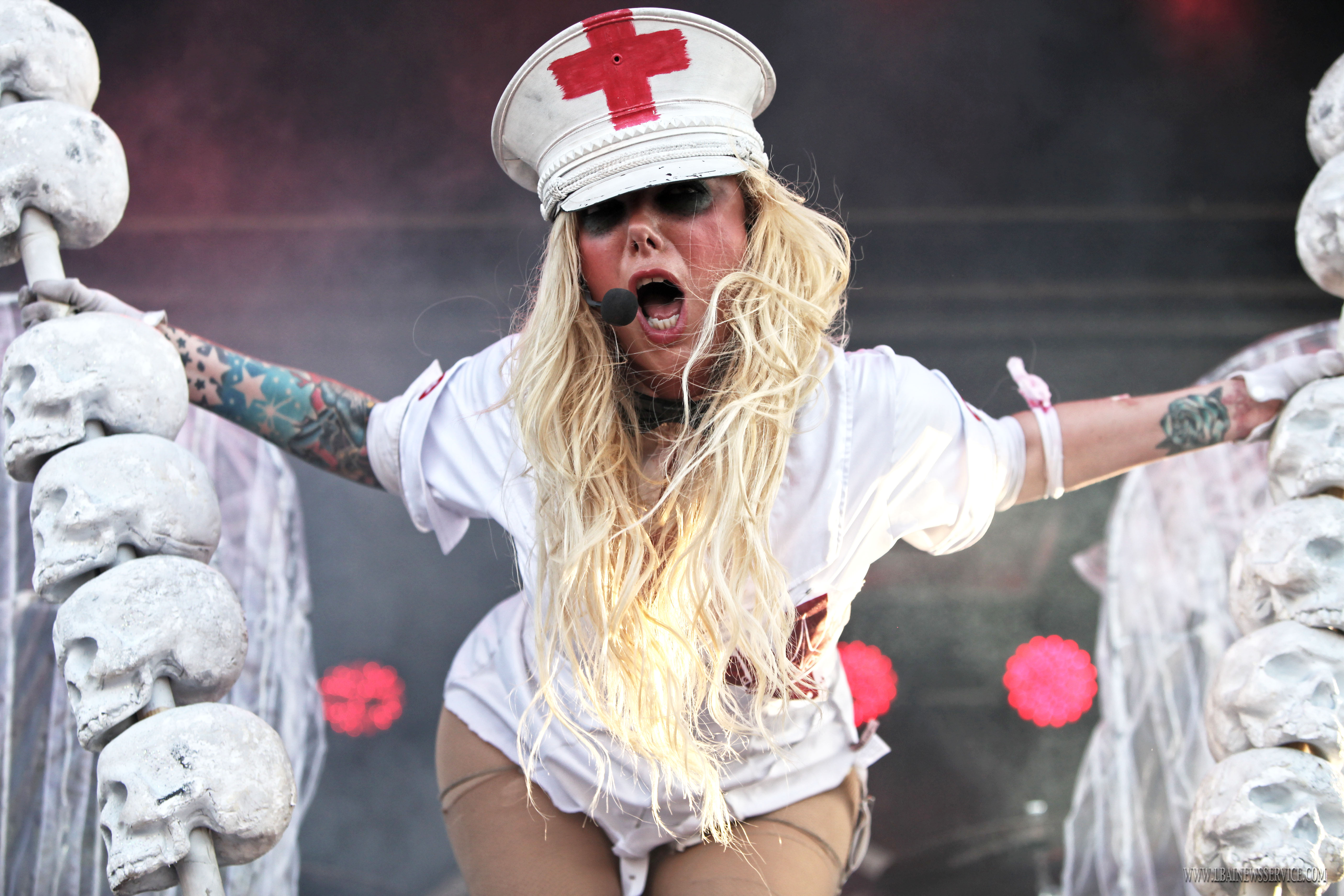 In This Moment performs at Fort Rock Festival 2013 at Jet Blue Park in Fort Myers - April 14, 2013